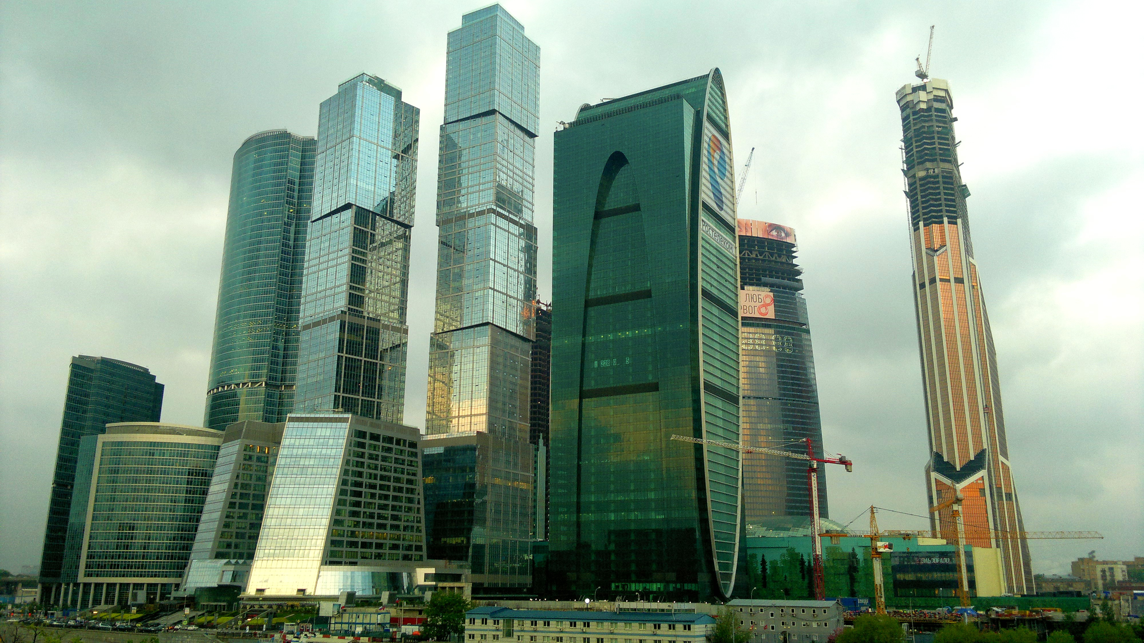 MIBC 9th May 2012